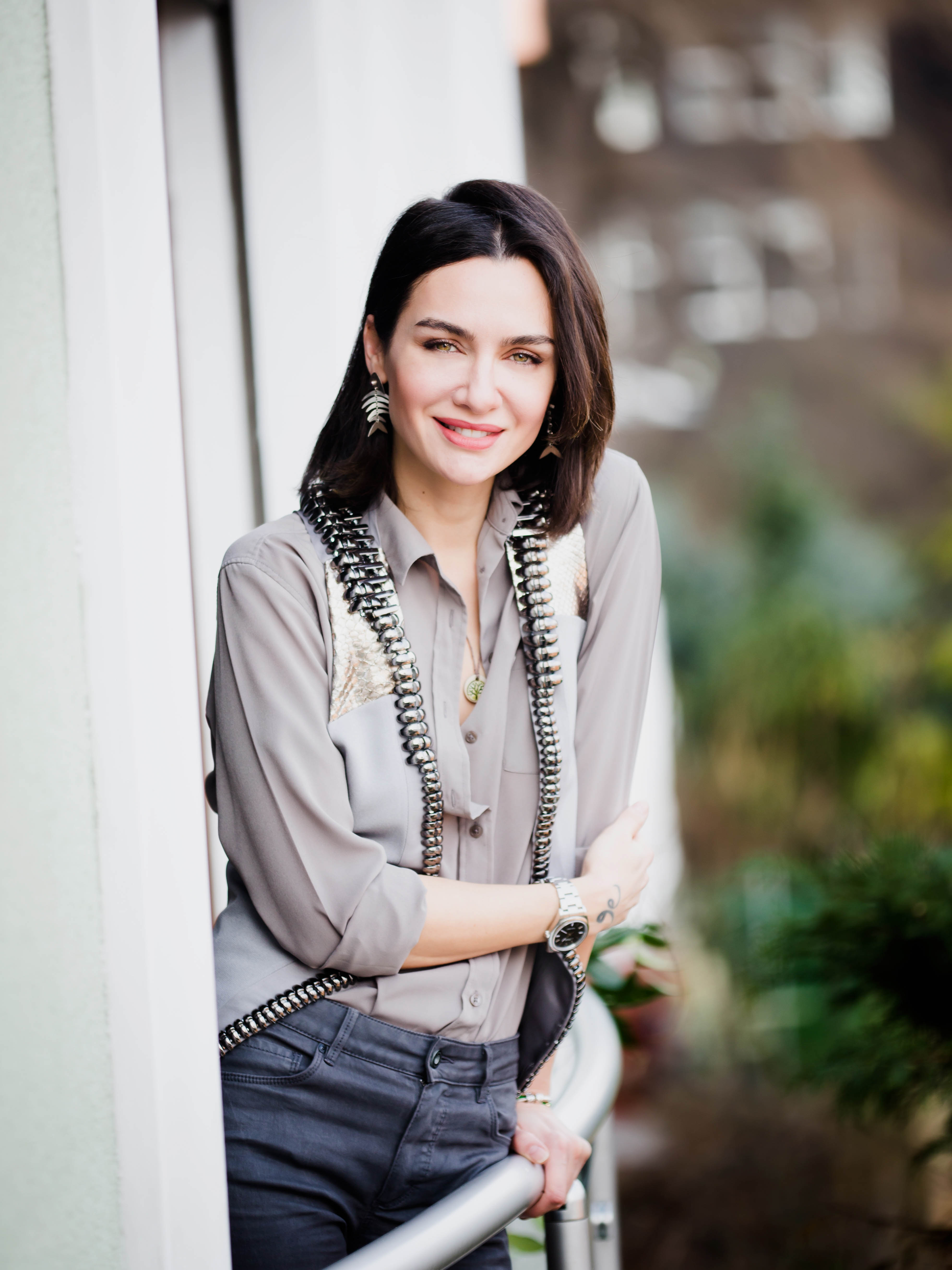 Birce Akalay (oyuncu) Fotoğraf :Vedat ARIK 19.02.2020